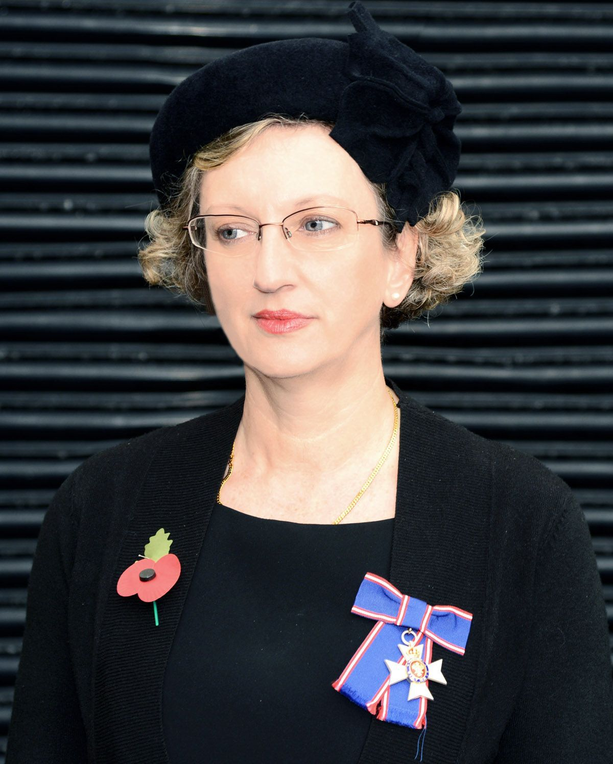 Picture of Alison Macmillan